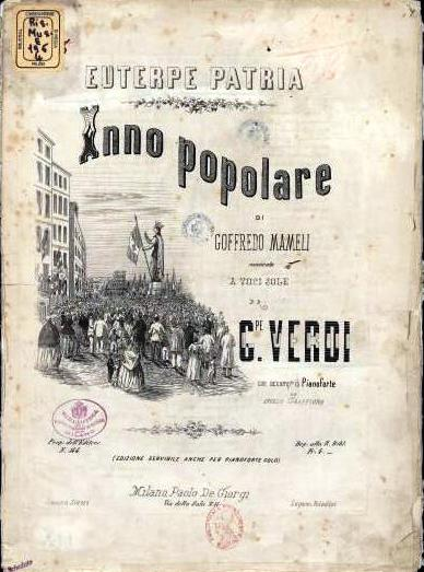 Cover of the score for Giuseppe Verdi's secular hymn "Suona la tromba", published in Milan, in 1868 by Paolo De Giorgi